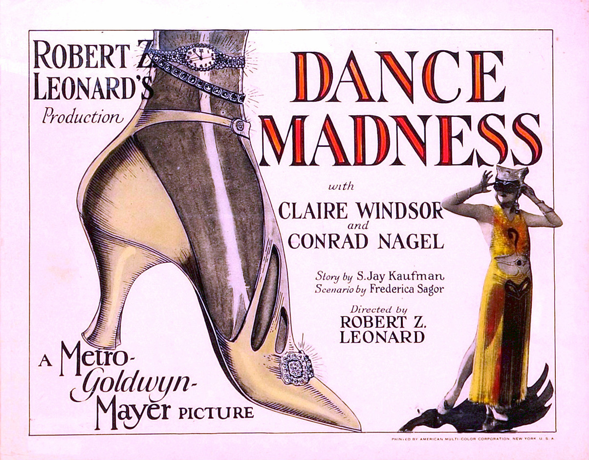 Lobby card for the American film Dance Madness (1926).